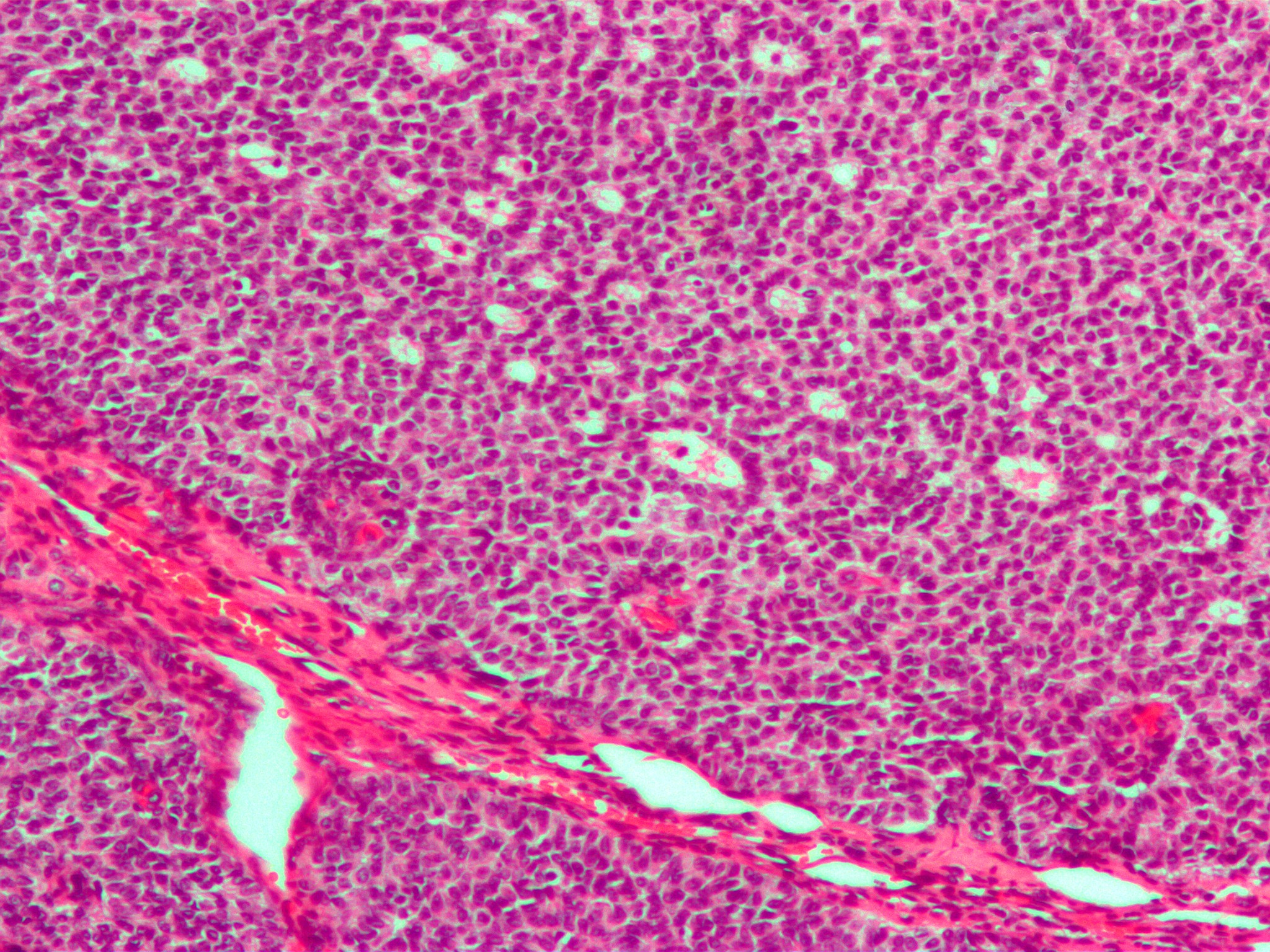 Intermediate magnification micrograph of a granulosa cell tumour, a type of sex cord stromal tumour. H&E stain. See also low magnification micrograph. this image with labeled Call-Exner bodies Brenner tumour, another type of ovarian tumour that is solid.